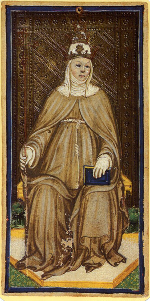 The Popess, card from the so-called Visconti-Sforza tarot deck drawn by Bonifacio Bembo, ca. 1450. The Pierpont Morgan Library (inv. M. 630), New York City, USA.